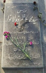 Kazem Zolanvari Grave